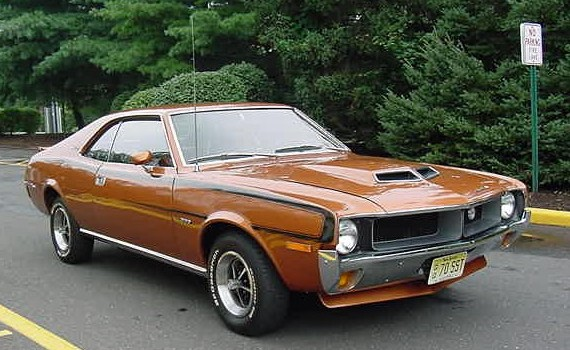 1970 Javelin SST by American Motors (AMC), a muscle-type "pony car". This two-door hardtop is finished in "Bitter Sweet Orange" (paint code P-79) with the optional black "C-stripe" on the sides. This car also has the "Go Package" that included the ram-air hood, "Magnum 500" wheels, and other high-performance components. Note: non-standard front air dam (spoiler) painted to match the car.